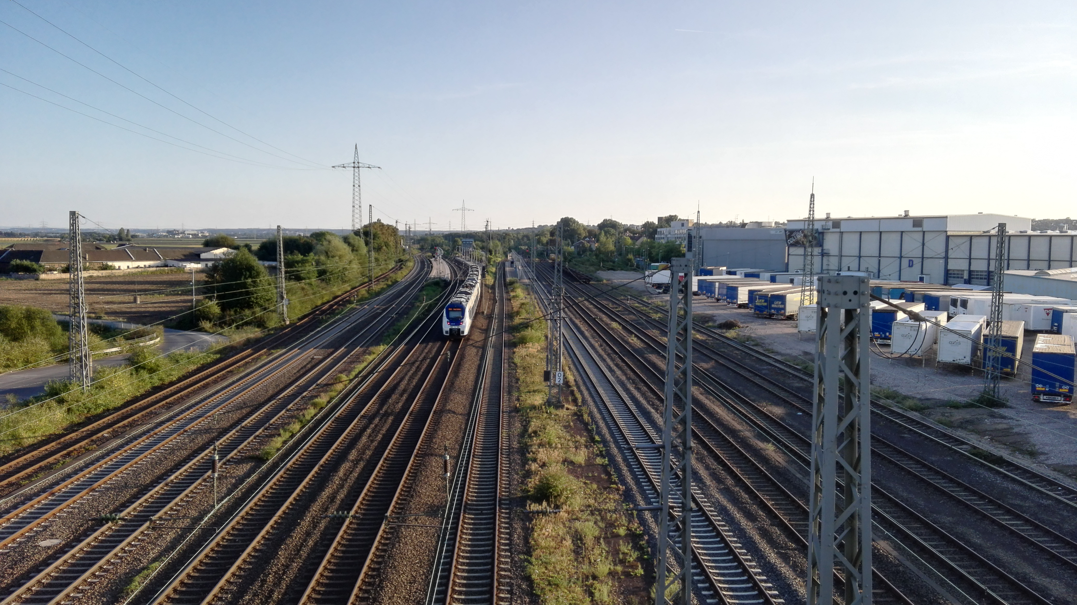 Hürth-Kalscheuren station photographed in the evening of September 06, 2016. The photo is taken from Jägerpfad bridge looking south. The tracks from left to right are: - Headshunt from Cologne Eifeltor container station - Northbound freight track towards Cologne Eifeltor container station and Cologne West - Southbound freight track from Cologne Eifeltor container station and Cologne West (both freight tracks merge into the West Rhine Railway immediately south of Hürth-Kalscheuren) - Northbound passenger track towards Cologne South, Cologne West and Cologne Main Station (West Rhine Railway) - Southbound passenger track towards Brühl, Bonn and Koblenz (West Rhine Railway, with NationalExpress RB 48 towards Bonn-Mehlem) - Northbound track (Eifel Railway) - Southbound track towards Erftstadt, Euskirchen and Trier (Eifel Railway, both Eifel Railway tracks merge into West Rhine Railway immediately north of Hürth-Kalscheuren) - four shunting tracks